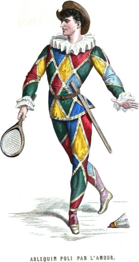 Arlequin Polished by Love (1720) by Pierre de Marivaux (1688-1763)